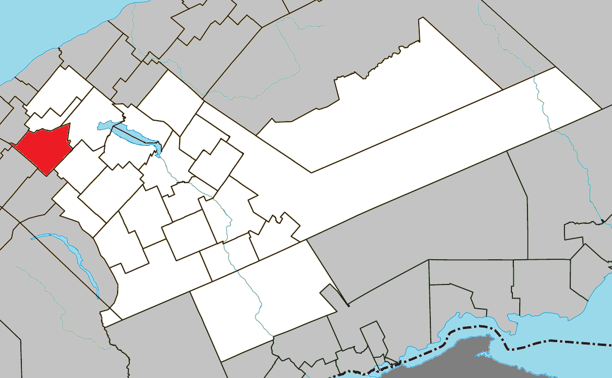 Location of Saint-Moïse, Quebec within La Matapédia Regional County Municipality.